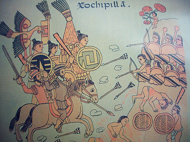 Paint of 1700 of war xochipilli